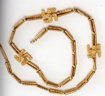 An unsubstantiated image caption found at Swastika was "A 3000 years old Iranian golden swastika necklace from Marlik site, Rasht Province of Iran. Preserved at the National Museum of Iran" The identity of this artefact (date, location, museum catalogue nr.) still needs to be established.